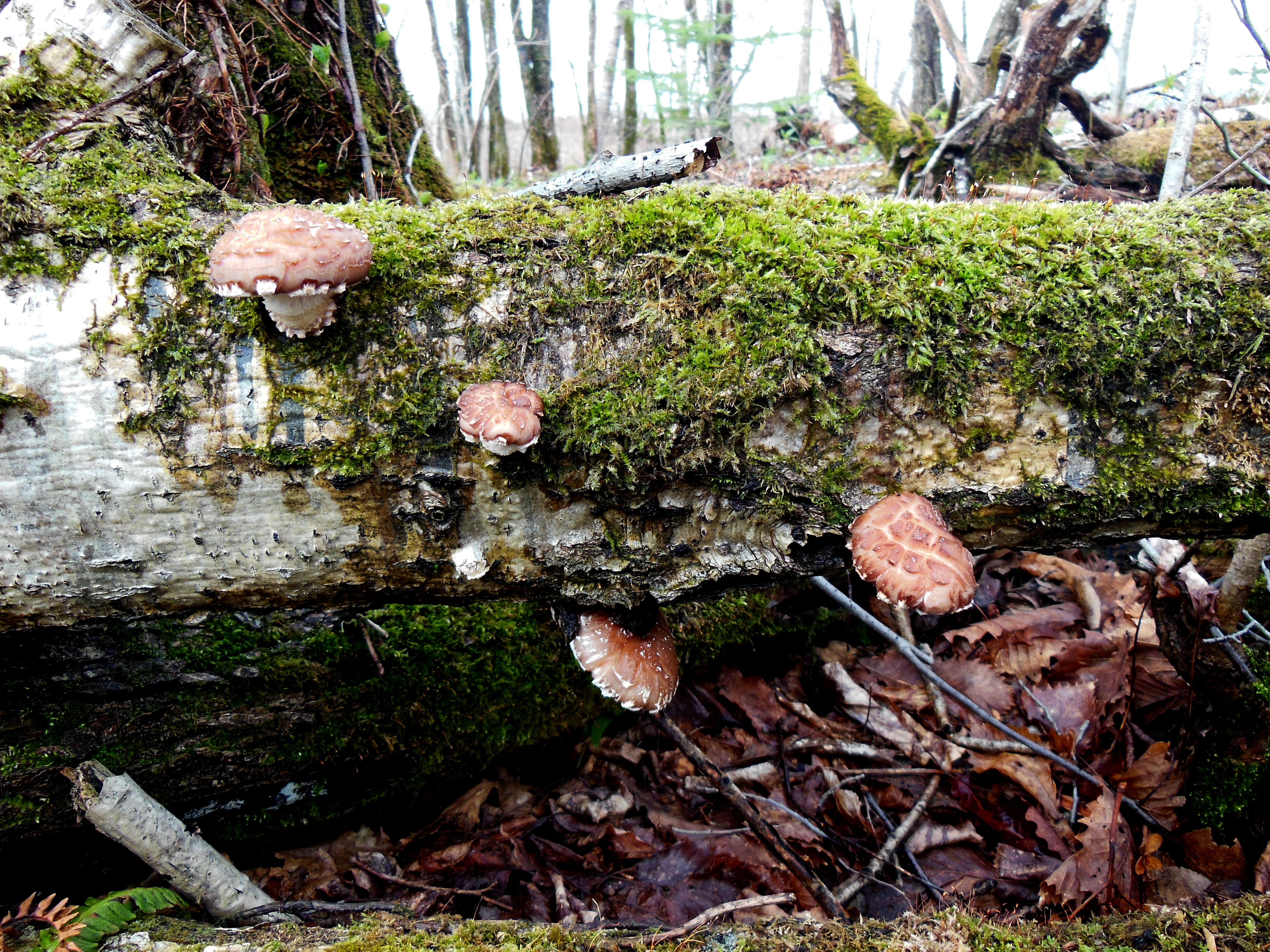 Wild Shiitake Mushroom (Lentinula edodes), which grows on dead wood (Betula sp.). Tomakomai, Hokkaido Pref. Japan. May 12, 2013.